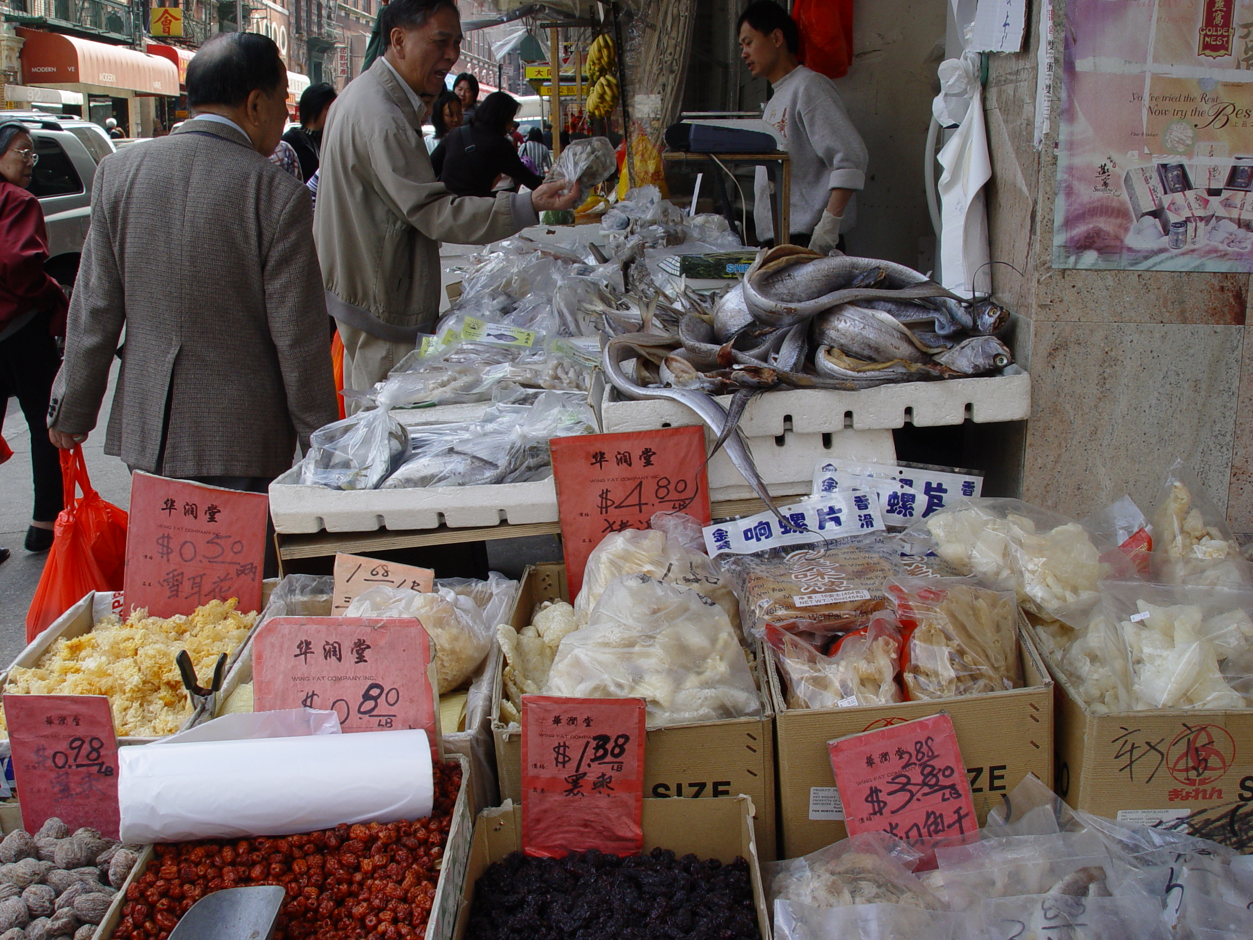 Fotografiert von Martin Dürrschnabel Laden in China Town in New York City.